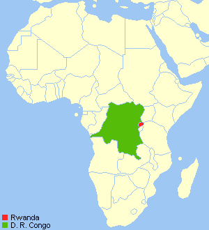 Locator map for Rwanda and the D. R. Congo.